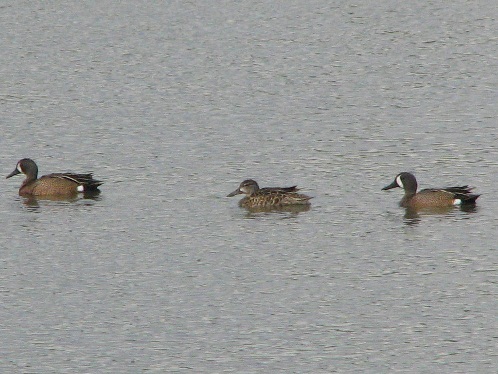 Blue-winged Teals (Anas discors), males and a female, Iona Island, Richmond, British Columbia